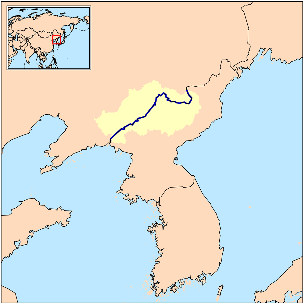 This is a map of the Yalu River drainage basin - in China and North Korea.